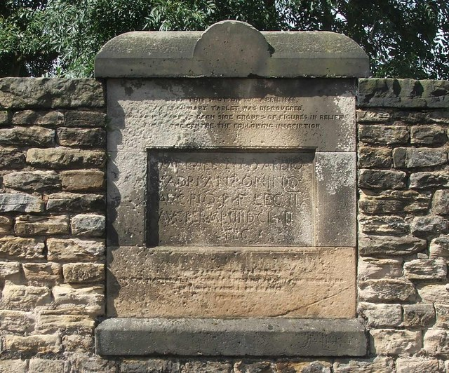 Roman Distance slab (“The Bridgeness Slab”) On a wall near the spot where the original stone was found in Harbour Road is a copy of the inscription. It marks a portion of the Antonine wall built by the Second Legion. Mr Henry Cadell of the Grange, owner of the estate when it was excavated in 1869 offered the stone to The Society of Antiquaries of Scotland for display in the National Museum of Scotland in Edinburgh if they would provide a copy for display locally. In addition to the Latin inscription the original has sculpted panels. On the left is a victorious Roman cavalryman with his victims and on the right is a victory sacrifice in progress. There are photographs in “Roman Distance Slabs From the Antonine Wall” by Lawrence Keppie, Hunterian Museum, Glasgow. ISBN 0-904254-02-X The original description is in the proceedings of the Society of Antiquaries of Scotland Vol 8 (1868-69) page 109 - 113 CIL VII 1126 = RIB 1, 2186: Imp(eratori) Caes(ari) Tito Aelio/ Hadriano Antonino/ Aug(usto) Pio p(atri) p(atriae) leg(io) II Aug(usta)/ per m(ilia) p(assuum) III(milia)DCLXVI s(emis)